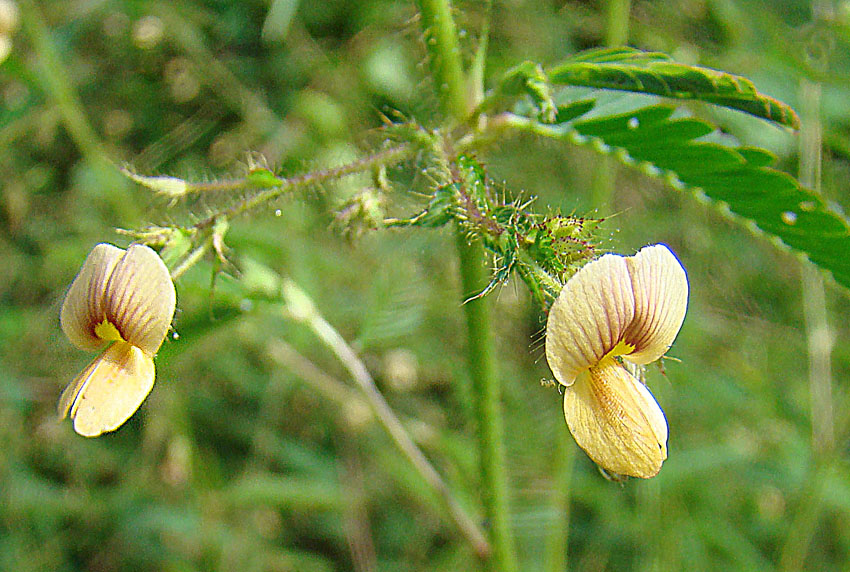 Pantropical from the Neotropics. A sensitive plant known as Shyleaf, with stick-seeds. Photo from Bastimentos Island, Panama. In context at